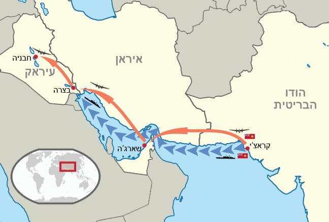 Basra in WW2 He Based on File:Armstrong Whitworth Albemarle ExCC.svg, File:Royal Navy Type 42 Destroyer Batch 3 silhouette.svg, File:Pakistan in its region (claimed and disputed hatched).svg